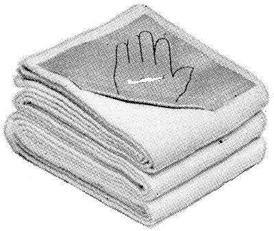 blanket to extinguish flames